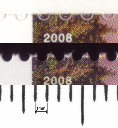 variance comparison between "adhesive by making the back wet / perforated" and "selfadhesive and die-cutted" (origins in the gallery) First Day of Issue / Erstausgabetag: 3. Juli 2008